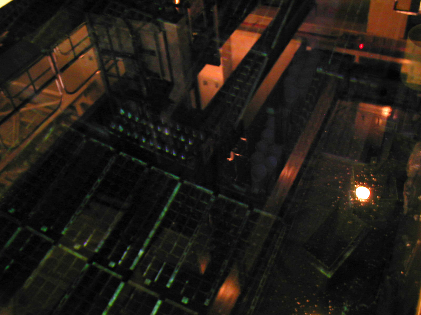 view into fuel pool inside a reactor building at Fukushima I nuclear power plant, Japan. Image is confused because view of what is under the water is overlaid by the reflection on the water surface of the crane and other equipment above the pond. This photo was taken on June 23, 1999 during a tour of the plant.